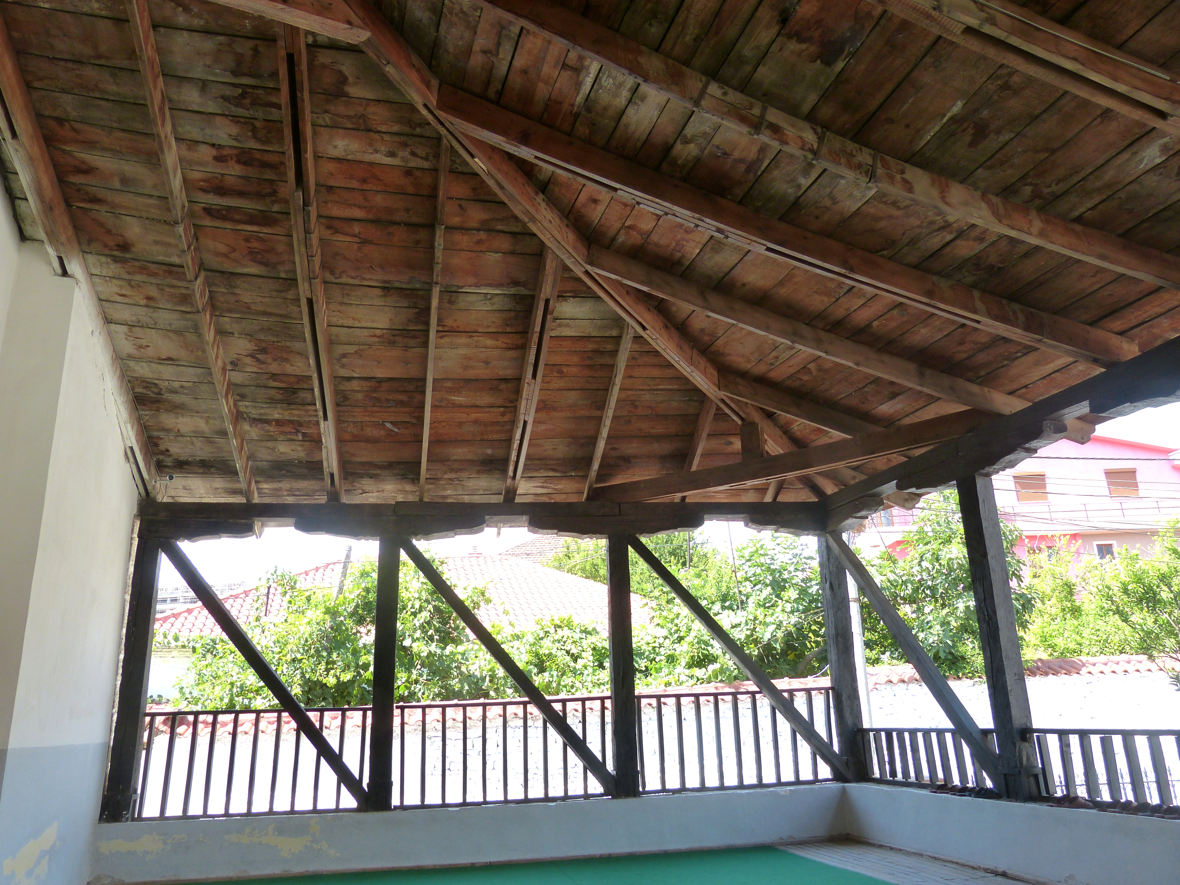 Elbasan ( Albania ). Mbret-Mosque ( 1492 ): Narthex.